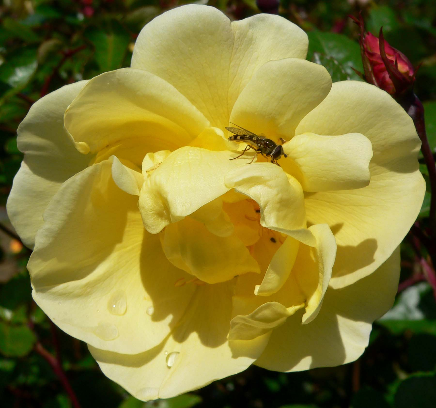 Photo of Rosa 'Poulsen's Yellow' at the San Jose Heritage Rose Garden